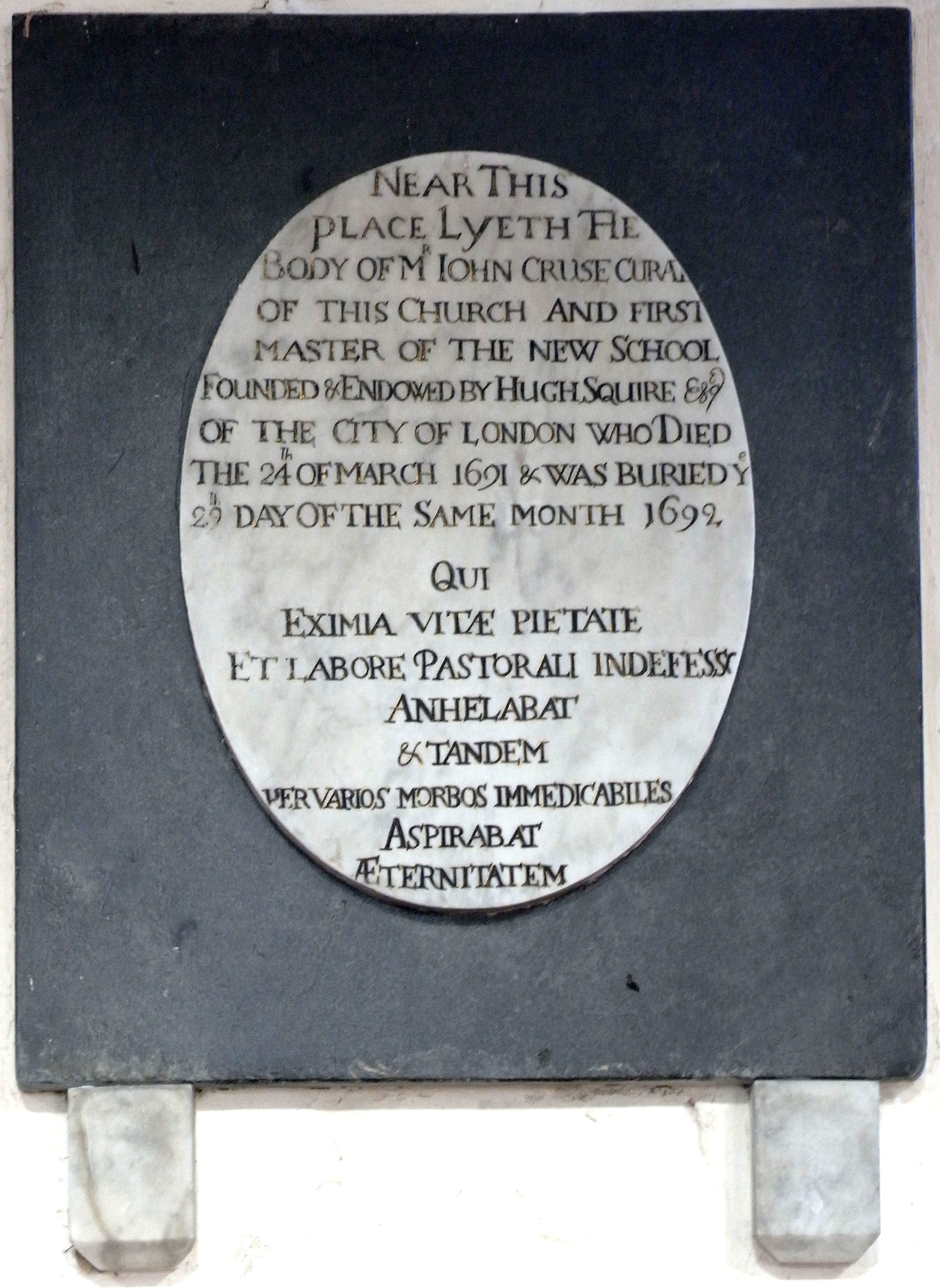 Mural monument on north aisle wall of St Mary Magdalen's Church, South Molton, Devon, to John Cruse (d.1692, new style), the first Master of the Free School founded in 1682 by Hugh Squier (1625-1710) in East Street, South Molton. Inscribed as follows: Near this place lyeth the body of M(aste)r John Cruse curat(e) of this church and first Master of the new school founded & endowed by Hugh Squire (sic) Esq., of the City of London, who died the 24th of March 1691 and was buried ye 29th day of the same month 1692. Qui eximia vitae pietate et labore pastorali indefesse anhelabat & tandem per varios morbos immedicabiles aspirabat aeternitatem. ("Who having been unwearied by distinguished piety and labour of a pastoral life was panting for and at last through various incurable diseases breathed-in, Eternity")